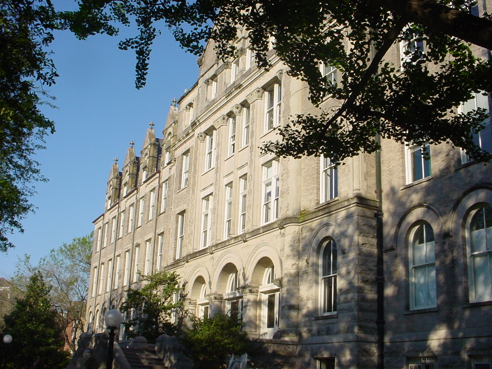 Author: Tony Vanky